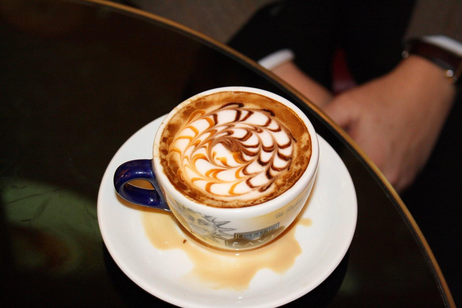 Cappuccino with latte art on Coffee Right in Brno, Czech Republic.